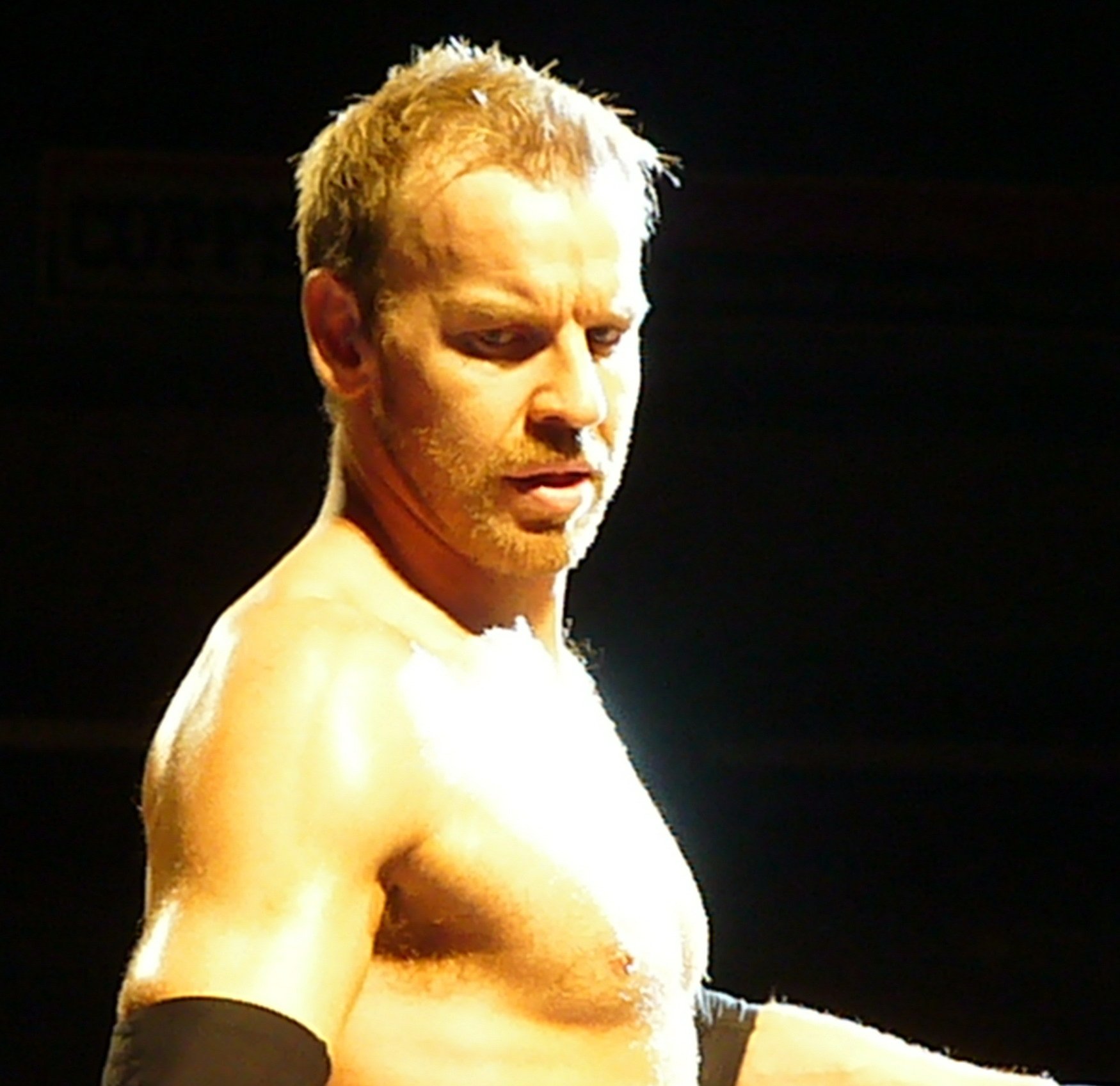 Professional wrestler Christian Cage